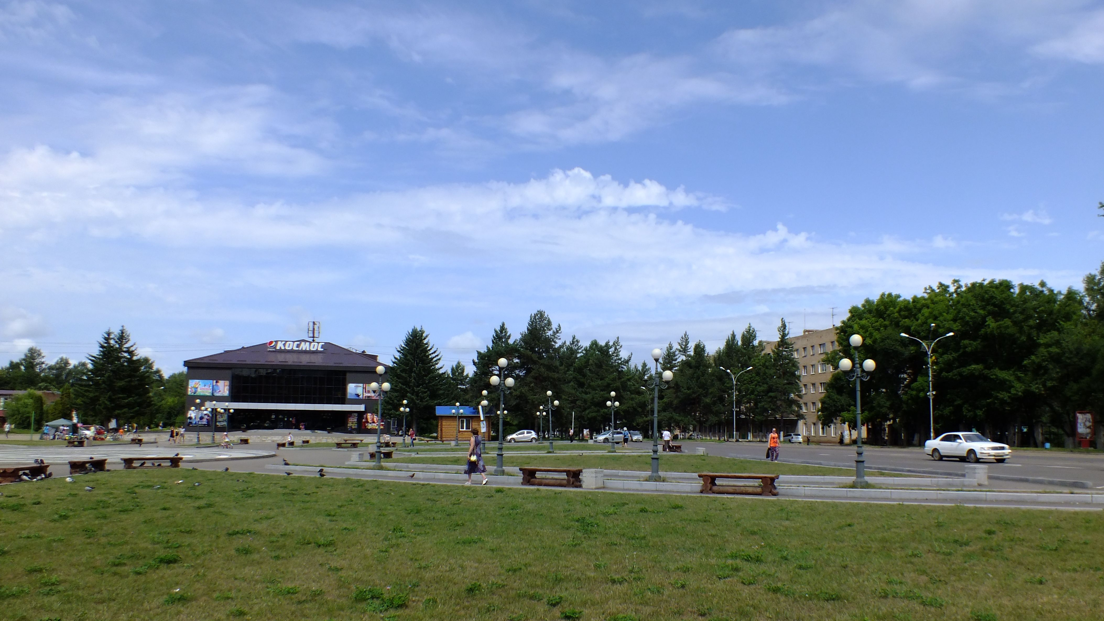 Arseniev